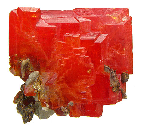 Wulfenite Locality: Red Cloud Mine, Silver District, Trigo Mts, La Paz County, Arizona, USA (Locality at ) Size: 2.0 x 1.8 x 0.8 cm. This beautiful thumbnail consists of a group of very sharp, tabular, stacked, gemmy, rich red-orange crystals of Wulfenite. One of the crystals has a section that is nearly water clear in one of the corners. A fine specimen from one of the single most important localities in the Western United States. This locality has been completely buried and never will be mined again. Ex. Richard Kosnar Collection.